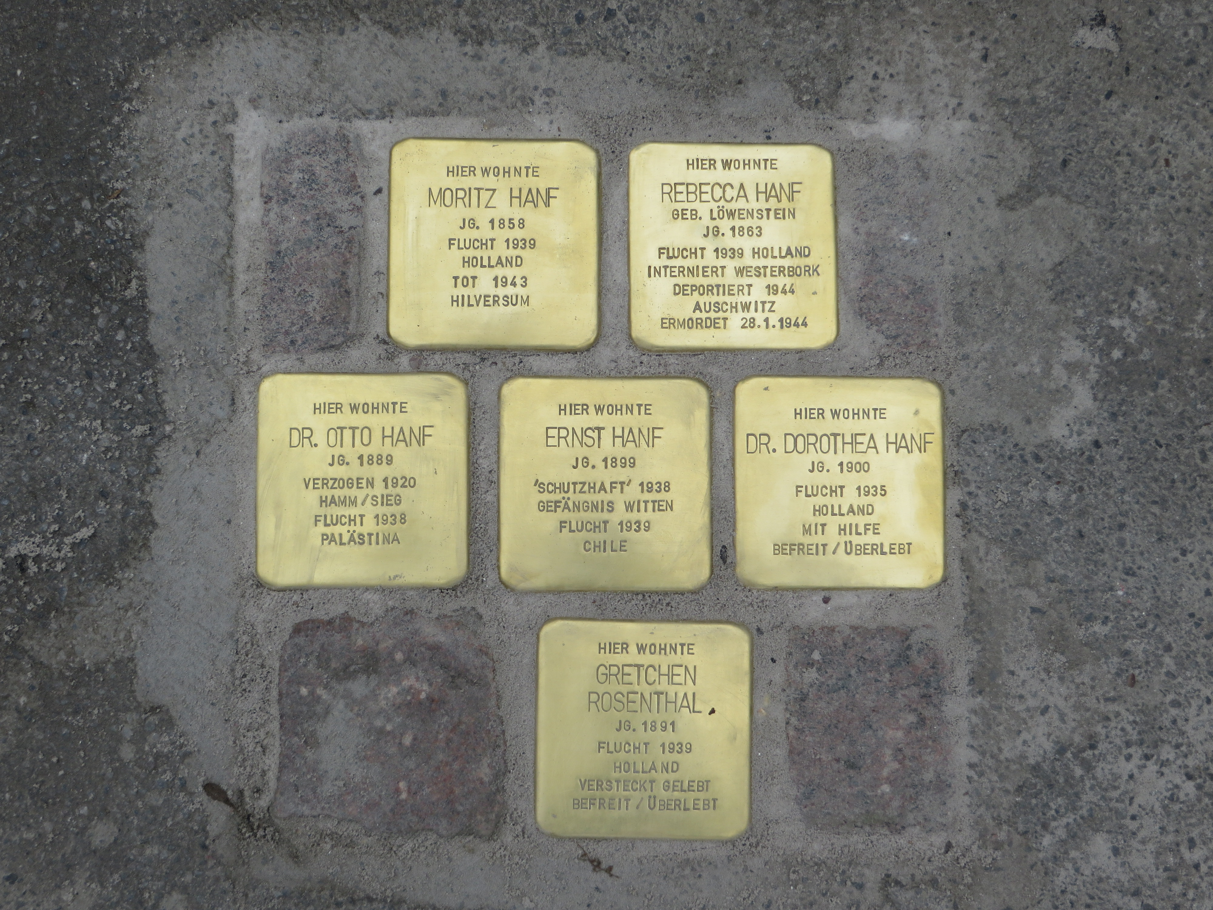 Stolpersteine at Villa Hanf in Witten, Germany